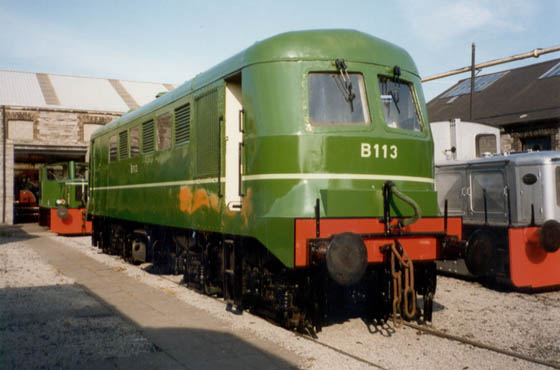 CIE B Class Diesel Loco. Uploaded by Dawgz with full approval from owner Aidan Brosnan as detailed in email sent 25th March to OTRS "Fw: Releasing 113 Class Irish Loco Photos for Wikipedia CIE B113.jpg" Ticket#2008032510013839 Original URL